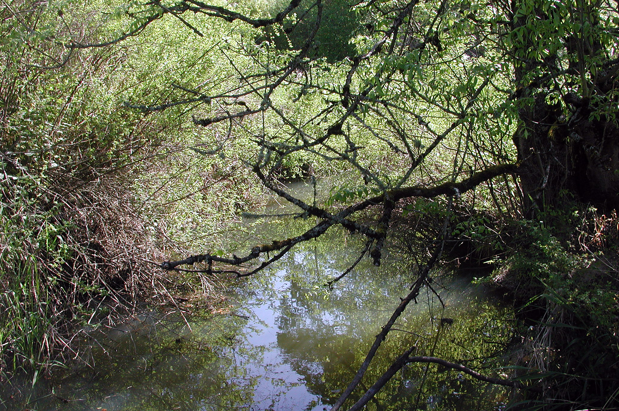 Fanno Creek winds through heavy underbrush in Beaverton's Greenway Park, the largest of 16 parks along the creek.